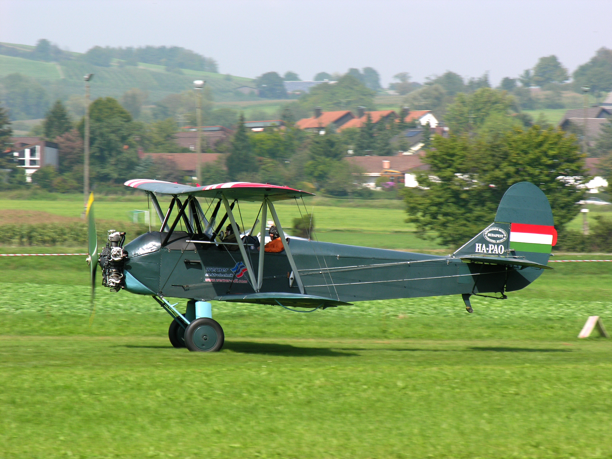 Germany, Baden-Württemberg, Polikarpov Po-2 HA-PAO at the air show in Hilzingen 2006